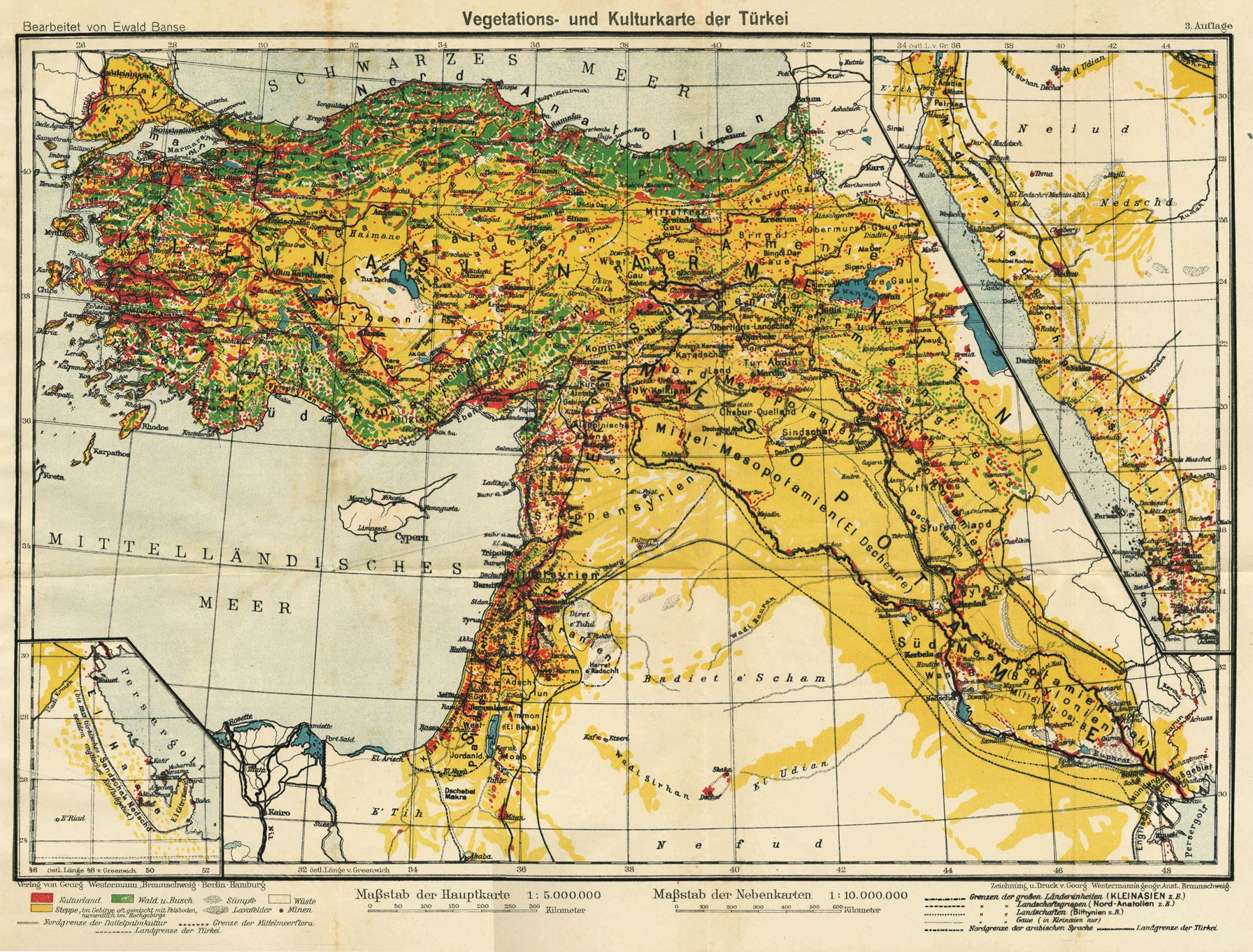 Ewald Banse. Die Türkei. Eine Moderne Geographie, Berlin/Βraunschweig/Hamburg 1919.